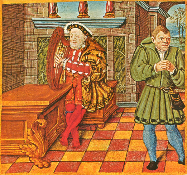 Will Somers, Henry VIII's fool and Henry playing the harp; from Henry's psalter British Library